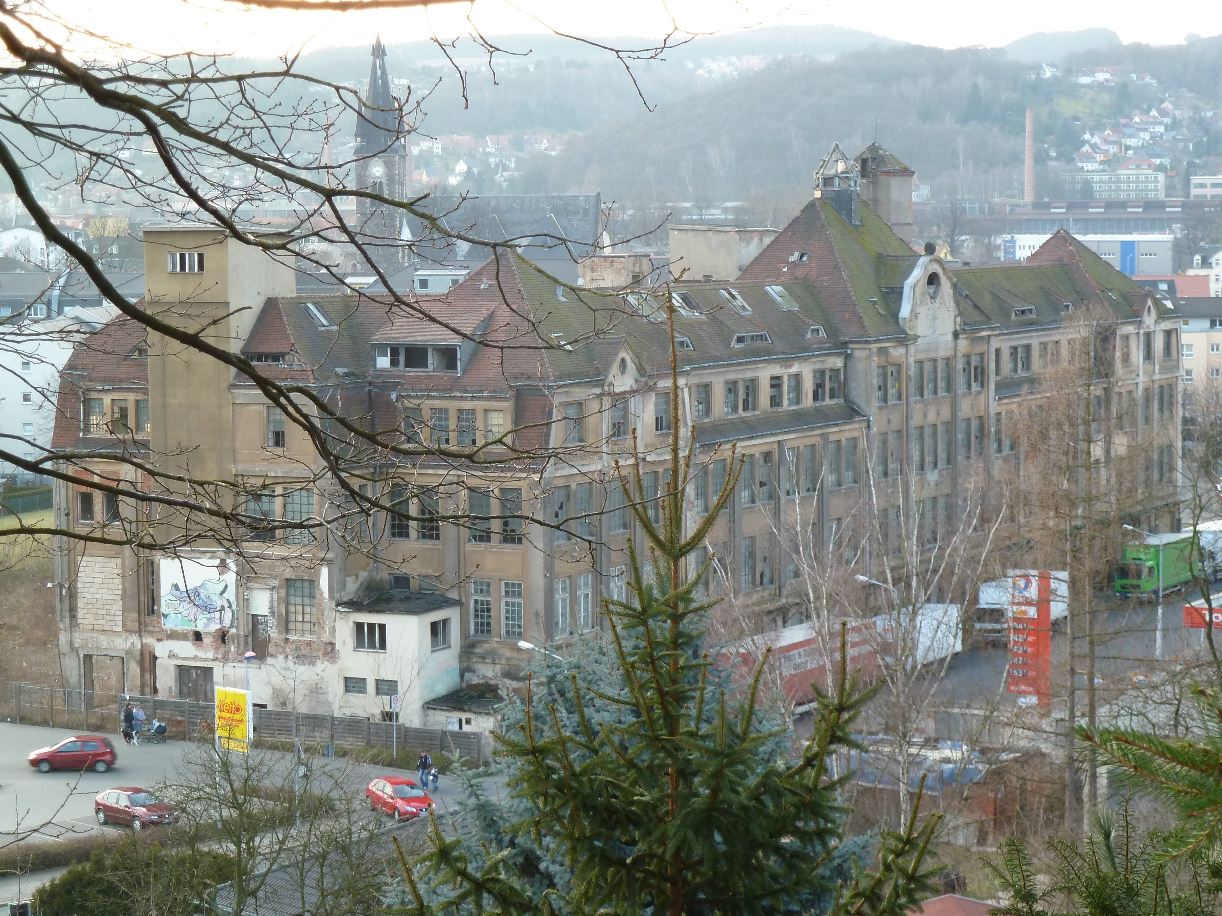 Leather manufactury 1893-1991 in Freital-Deuben